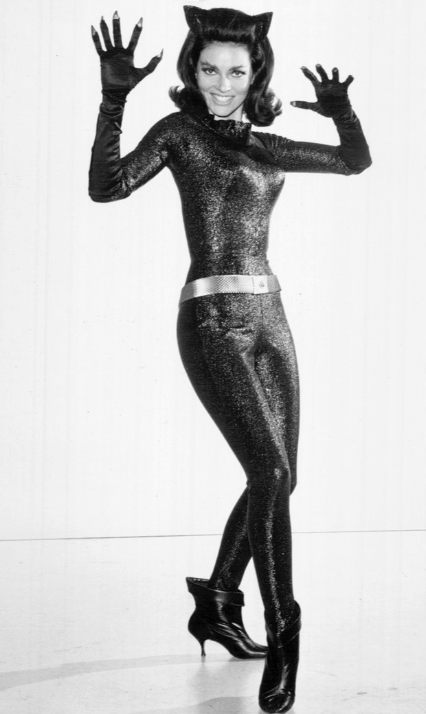 Photo of Lee Meriwether as Catwoman in Batman (1966 film). Julie Newmar originated the role in the television series, but had other commitments when the film was cast.